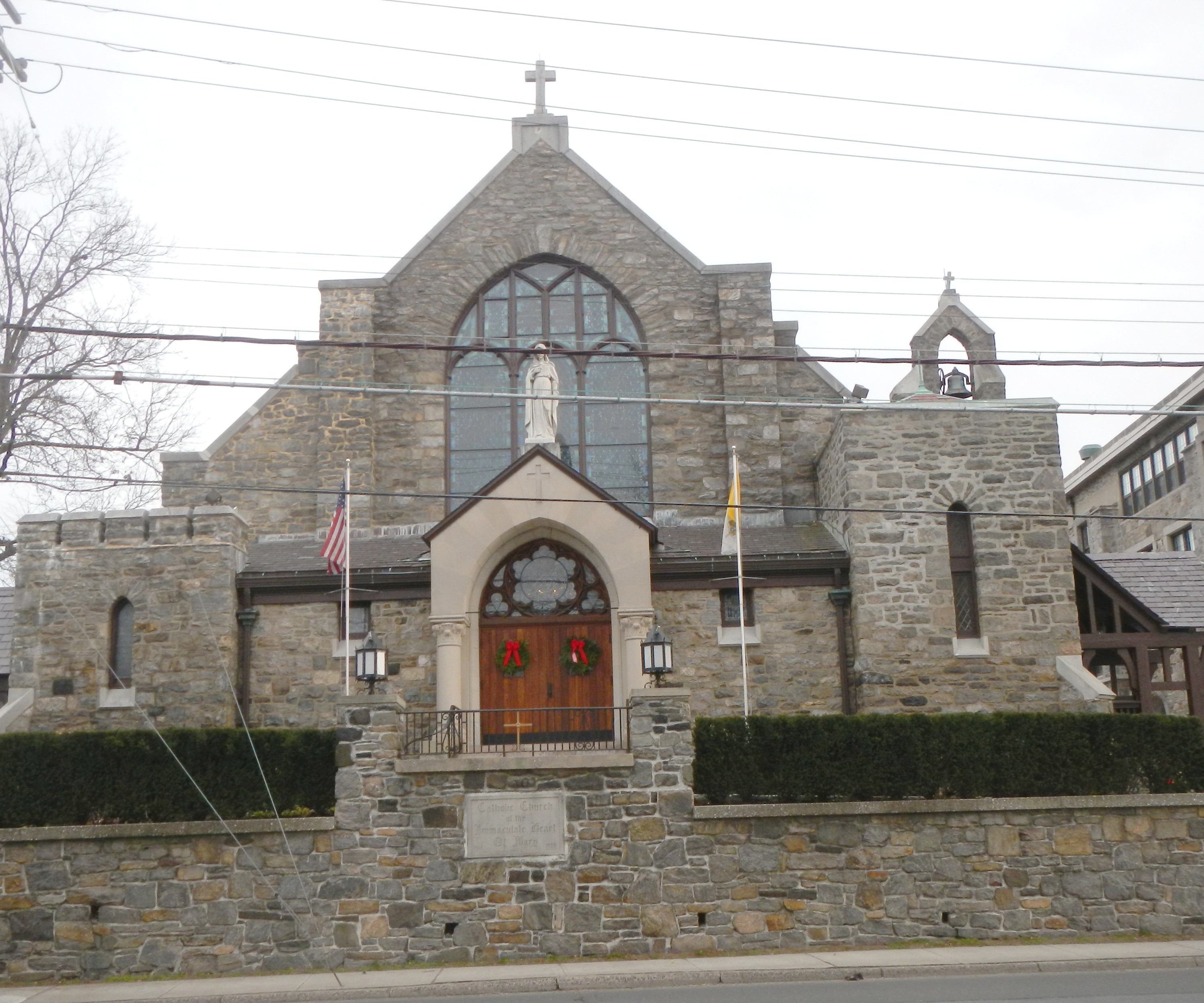 Looking east across White Plains Road at Catholic church on a cloudy afternoon.